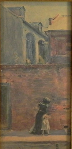 "Woman with Child in the French Quarter", early 20th century New Orleans street scene painting by Robert Bledsoe Mayfield